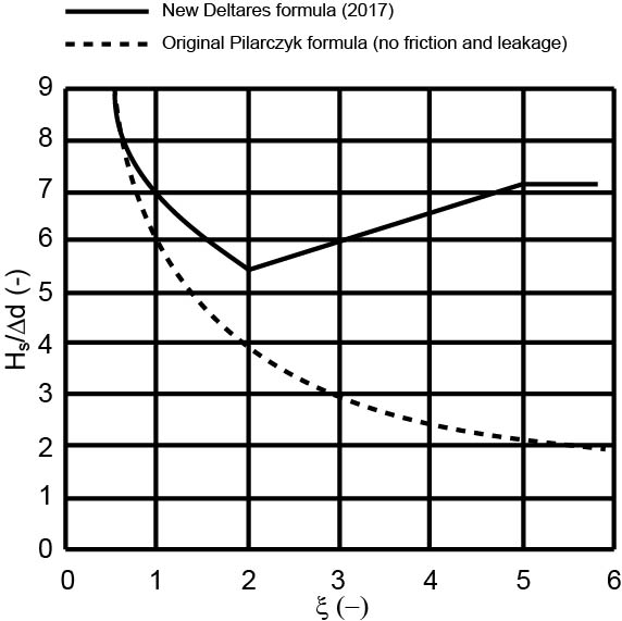 Stability of placed block revetments acc. to the publication of Klein Breteler (2017)